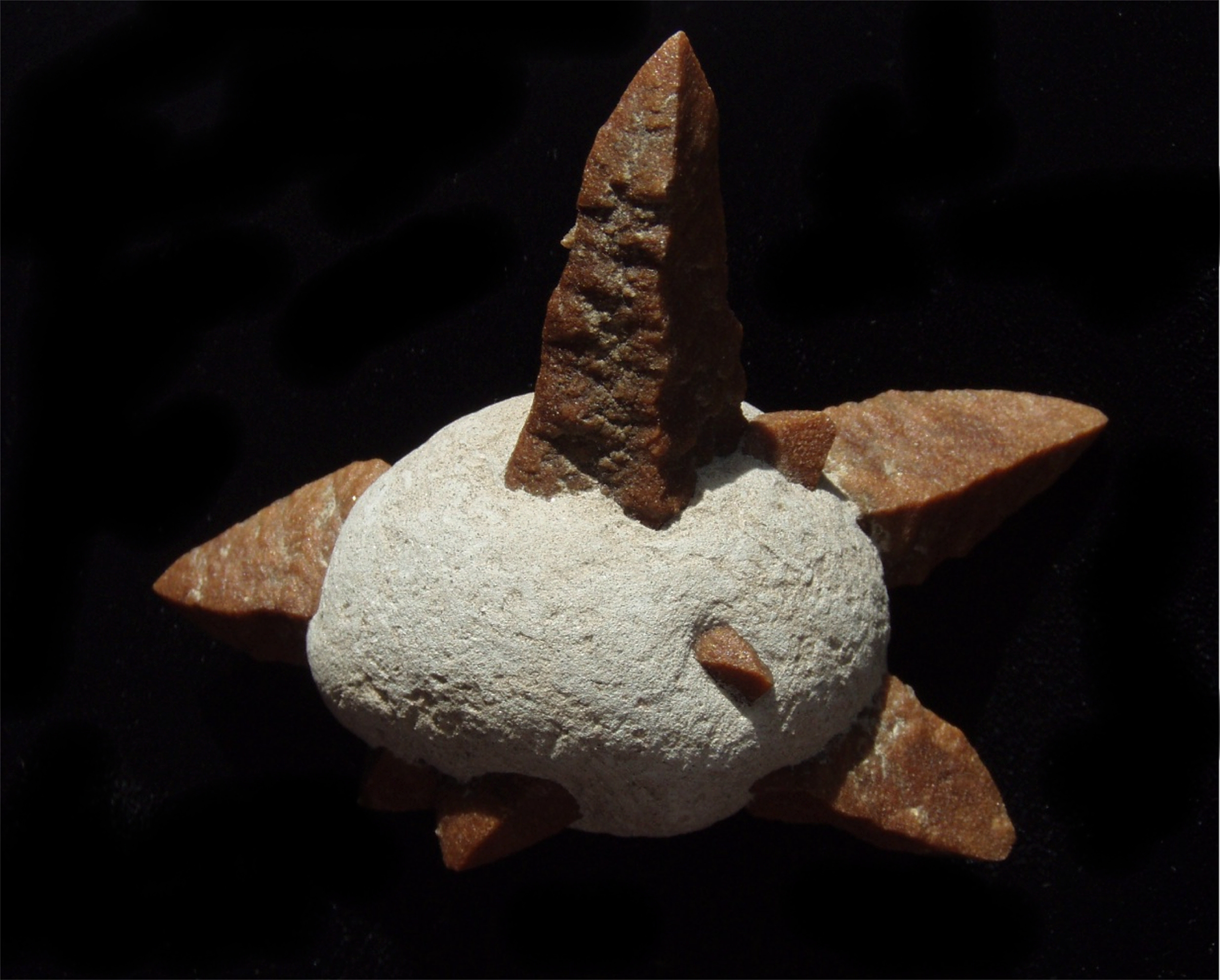 Calcite after Ikaite var. Glendonite concretion.The rock was found at Kola Peninsula, Russia. Ikaite is a rare mineral that occurs in nature at temperatures up to 7°C in alkaline, phosphate-rich marine and continental waters. Although ikaite has generally been replaced by calcite (this replacement is called glendonite), it has preserved its original crystal shape. Because of the rather restricted conditions under which ikaite/glendonite forms, it serves as a marker for near-freezing water temperatures. Hydrohalite, a form of salt, precipitates at low temperatures from highly saturated brines. It is not well-preserved in sediments because of its high solubility, but its former existence can be inferred from the presence of halite or other minerals that preserve the shape of the original crystals. Minerals are just one of many proxies used by geologists to reconstruct past climates. Some minerals like ikaite define a very narrow set of conditions, while others, like the clays, appear in a number of geologic and climatic settings. Minerals along with other indicators — fossils, tree rings, pollen, ice cores, geochemistry or isotopes — provide tantalizing clues to ancient climates.